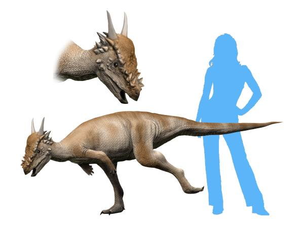 Life reconstruction of Stygimoloch spinifer